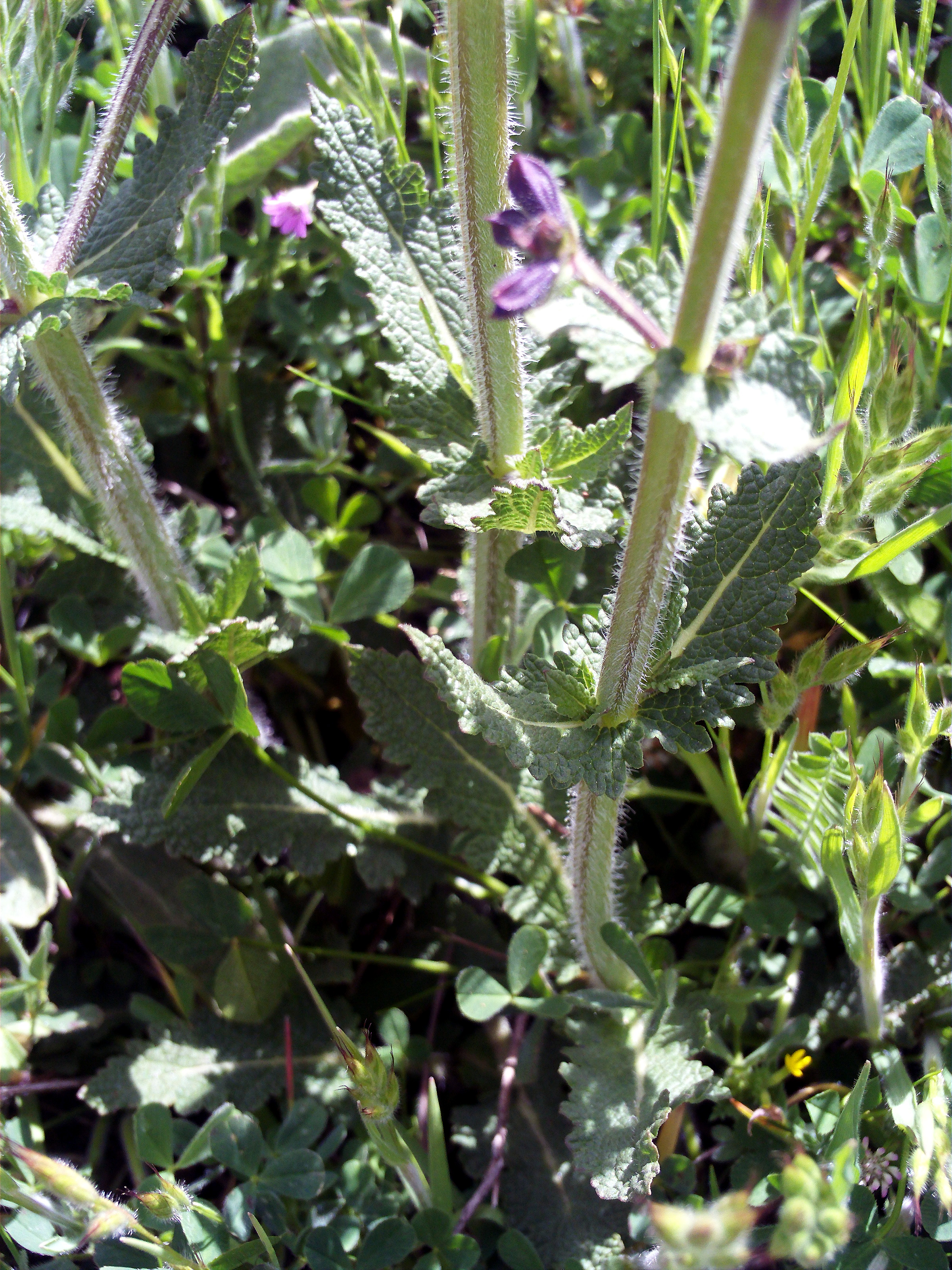 Salvia verbenaca stem and leaves Campo de Calatrava, Spain